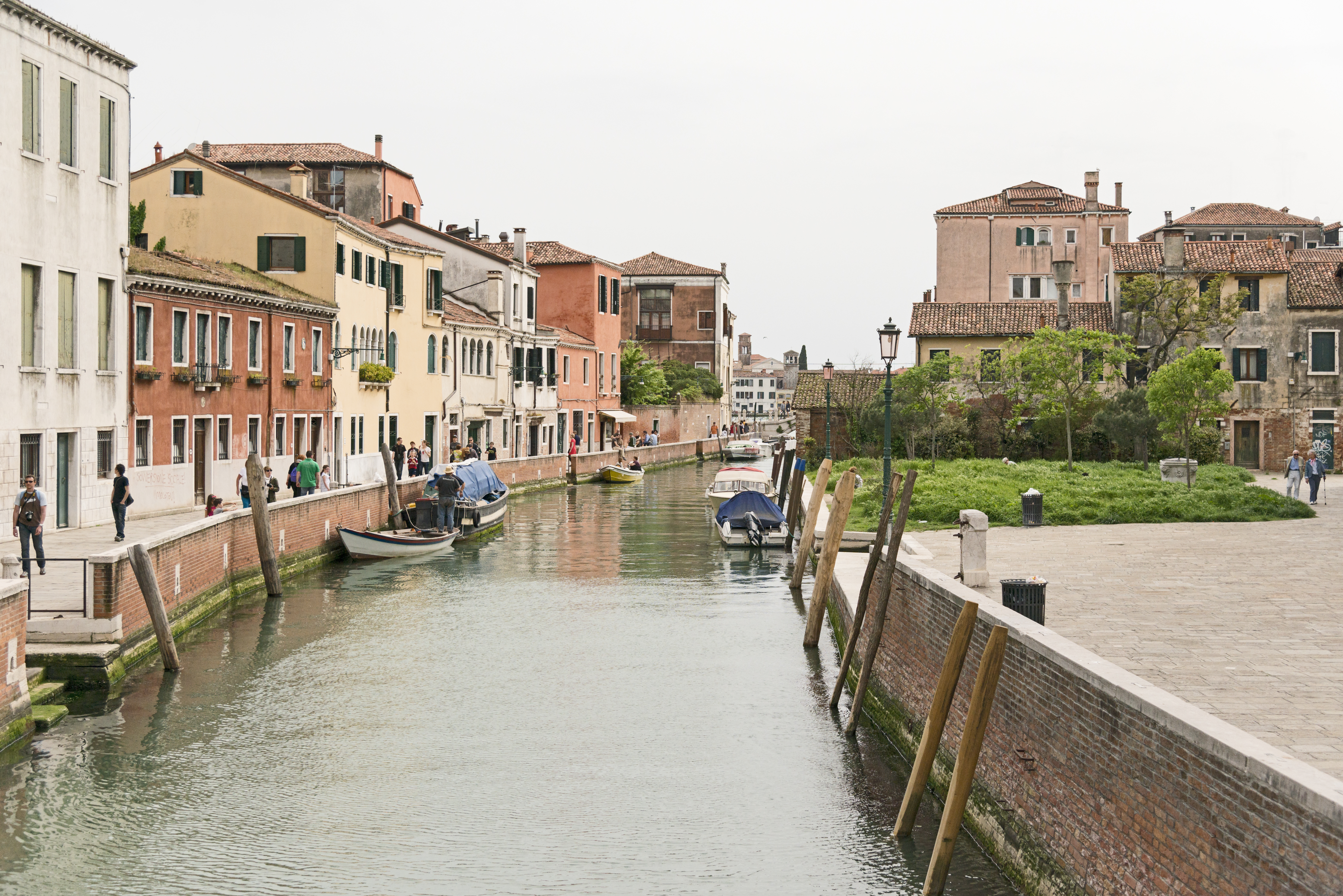 Rio de san Trovaso to Venice. The rio, seen from the bridge of San Trovaso in the direction of the Giudecca Canal.